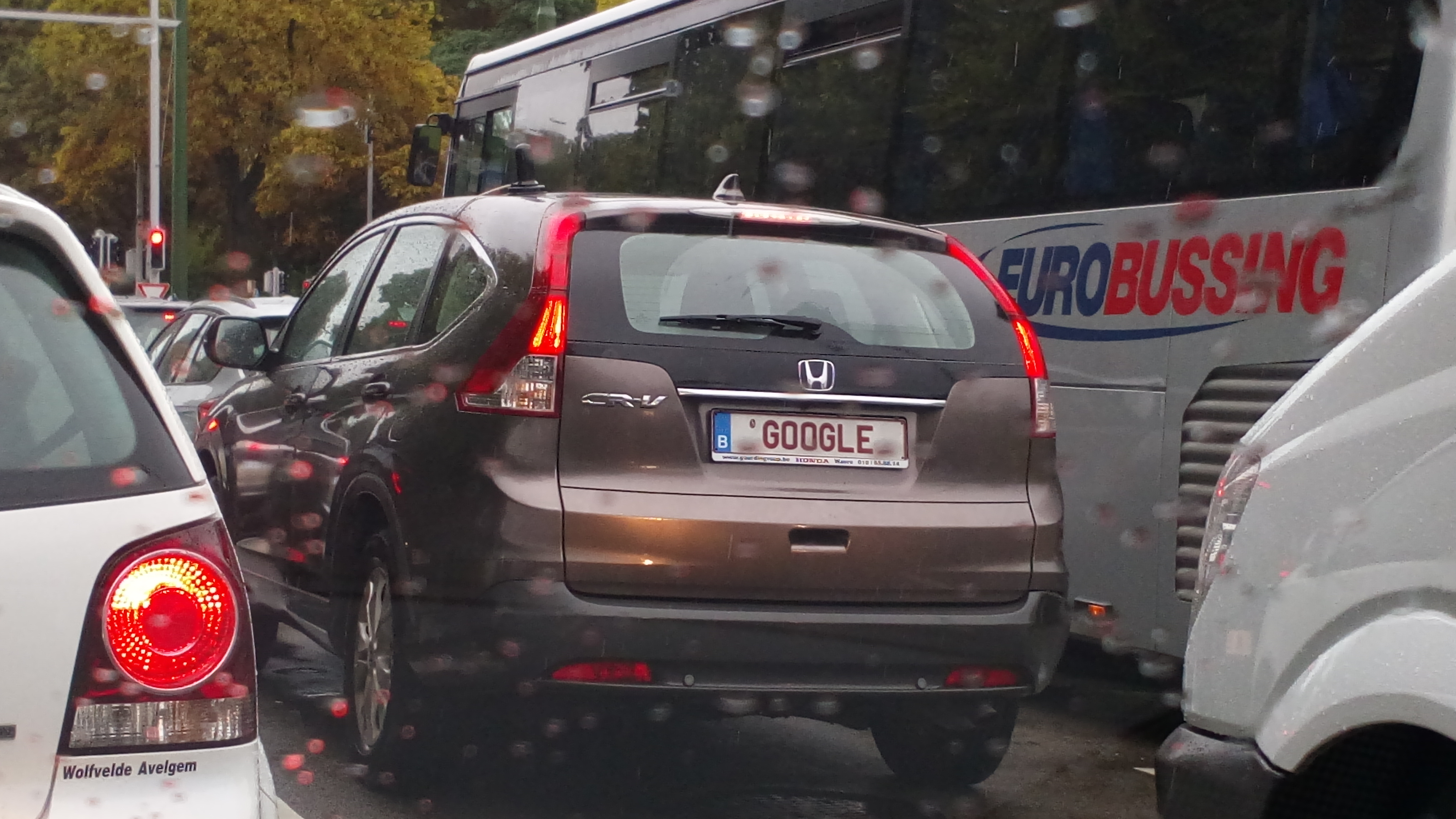 Honda car with personalized Belgian plate number. In a Brussels traffic jam.